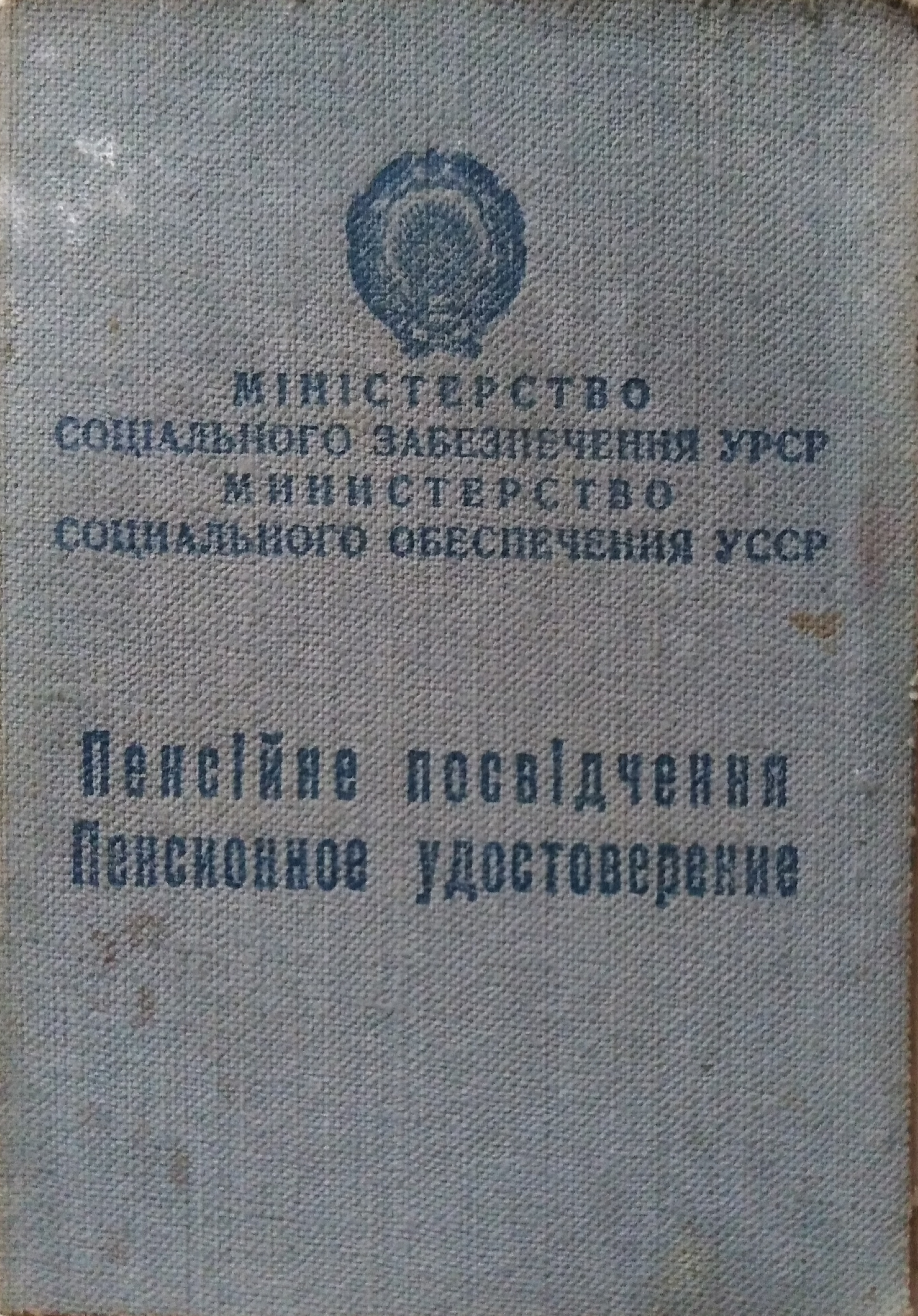 Cover of pension certificate. Ministry of Social Security of the UkrSSR, model 1956 (this copy was issued in 1959). Printed: Kiev Print. УВК-3 Str. Red Army, 15; 22.X-56 p .; БФ 15149